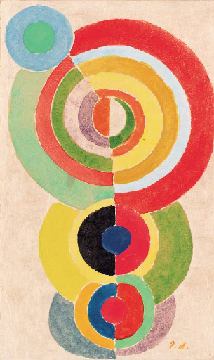 Rythme I, signed with initials 'r.d.', gouache and watercolor on Japan paper, 19.2 x 12 cm